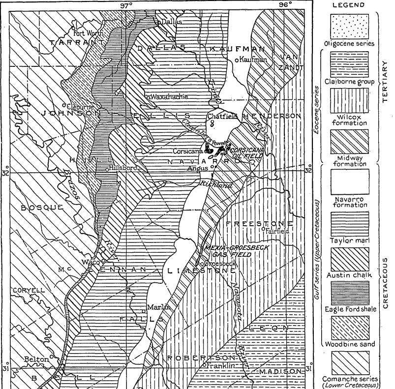 Corsicana and Powell oil fields geologic map